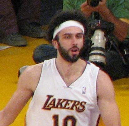 Photo of Los Angeles Lakers Vladimir Radmanović.